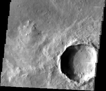 Noord crater on Mars, imaged by THEMIS VIS. Emission Angle: 0.3 Incidence Angle: 69.8 Latitude: -18.9 Longitude: 348.7 Phase Angle: 69.9 Pixel Resolution: 17.8